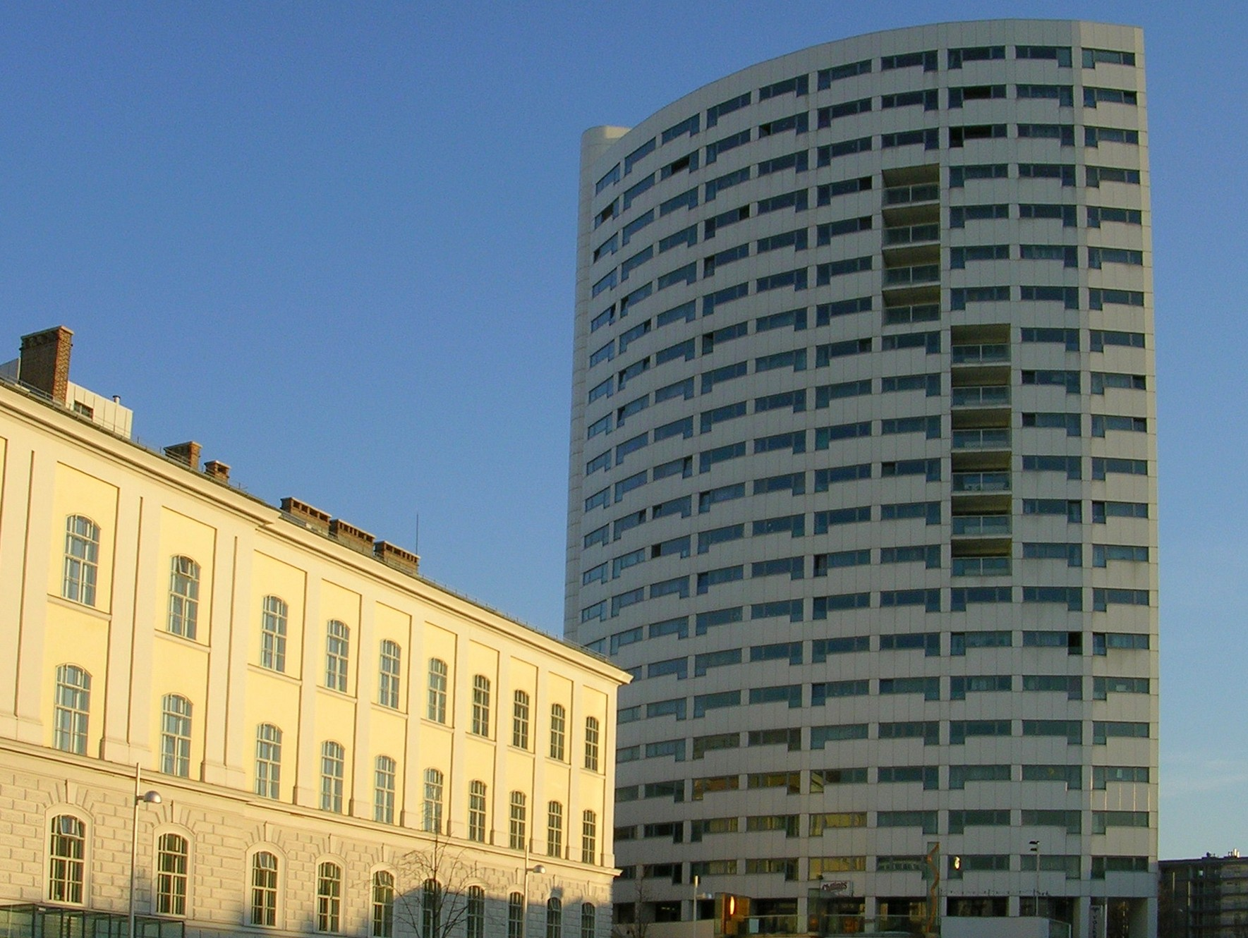 End station Ottakring of subway U3